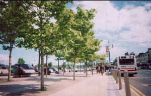 The Quay, Waterford